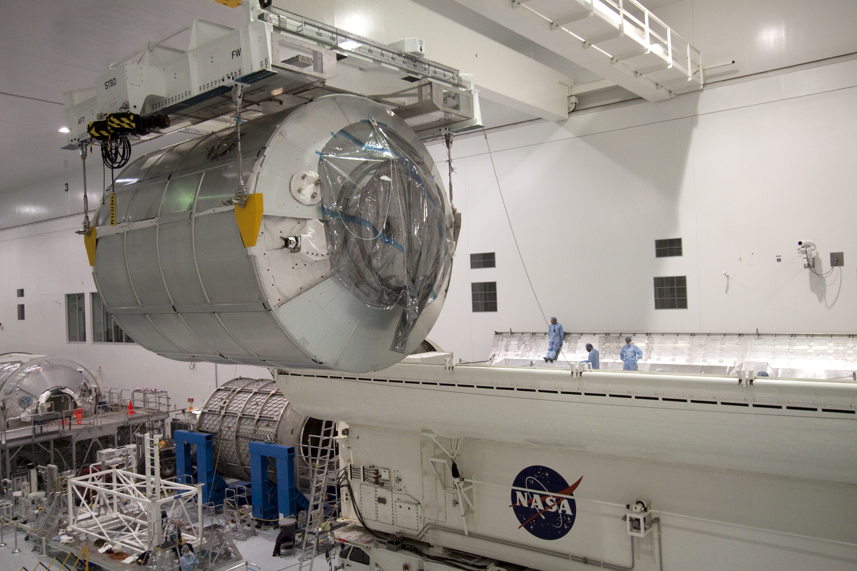 CAPE CANAVERAL, Fla. - In the Space Station Processing Facility at NASA's Kennedy Space Center in Florida, the multi-purpose logistics module Leonardo glides along the ceiling toward a payload canister. Leonardo will be transported to Launch Pad 39A and installed into space shuttle Discovery for its upcoming flight. The seven-member STS-131 crew will deliver Leonardo, filled with resupply stowage platforms and racks, to the International Space Station. STS-131 will be the 33rd shuttle mission to the station and the 131st shuttle mission overall. Launch is targeted for April 5. For information on the STS-131 mission and crew, visit